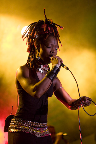 Dobet Gnahoré - Festival Africajarc (Cajarc, France) 2008